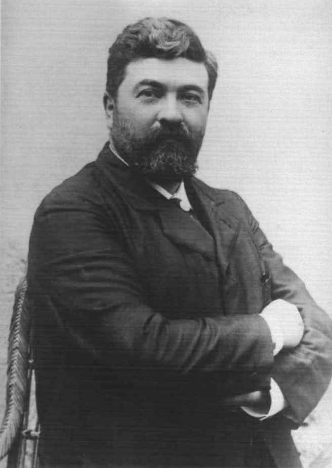 Ion Cantacuzino